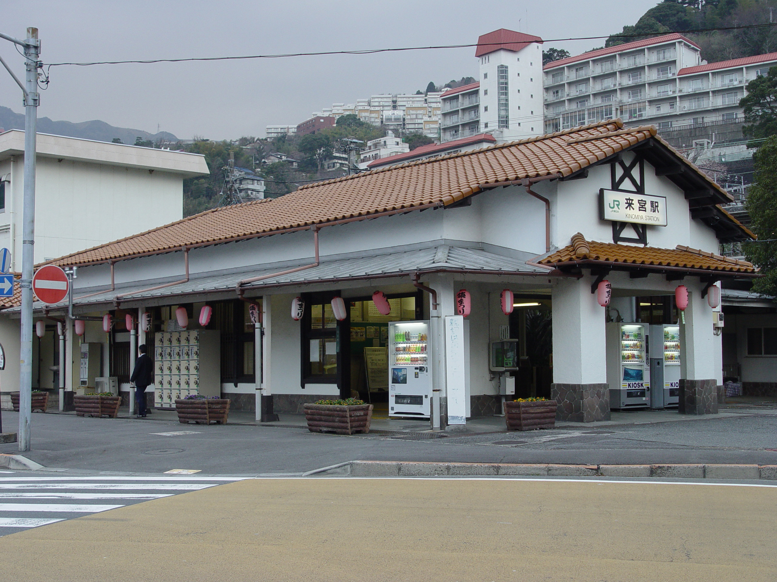 Kinomiya Station, Ito Line 伊東線来宮駅